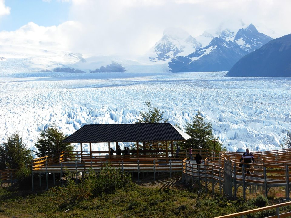 Walkways close to Perito Moreno Glacier